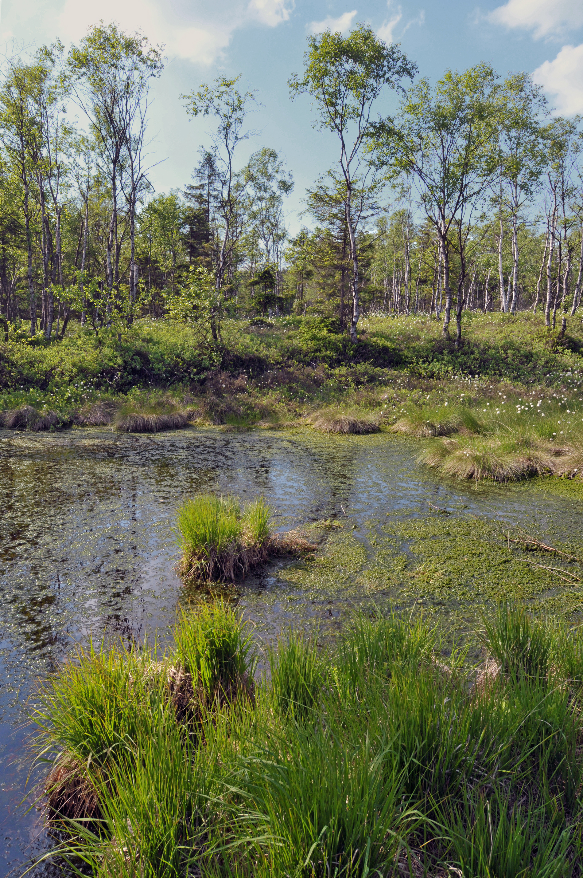 Moor "Mecklenbruch" in the Solling near village Silberborn, Lower Saxony, Germany.